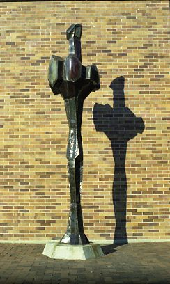 Scepter (1966) by Steve Tibbetts.[1] Sculpture at what was then Western Washington State College, now Western Washington University. Photo made in 1970. Other information Photo by George Garrigues.